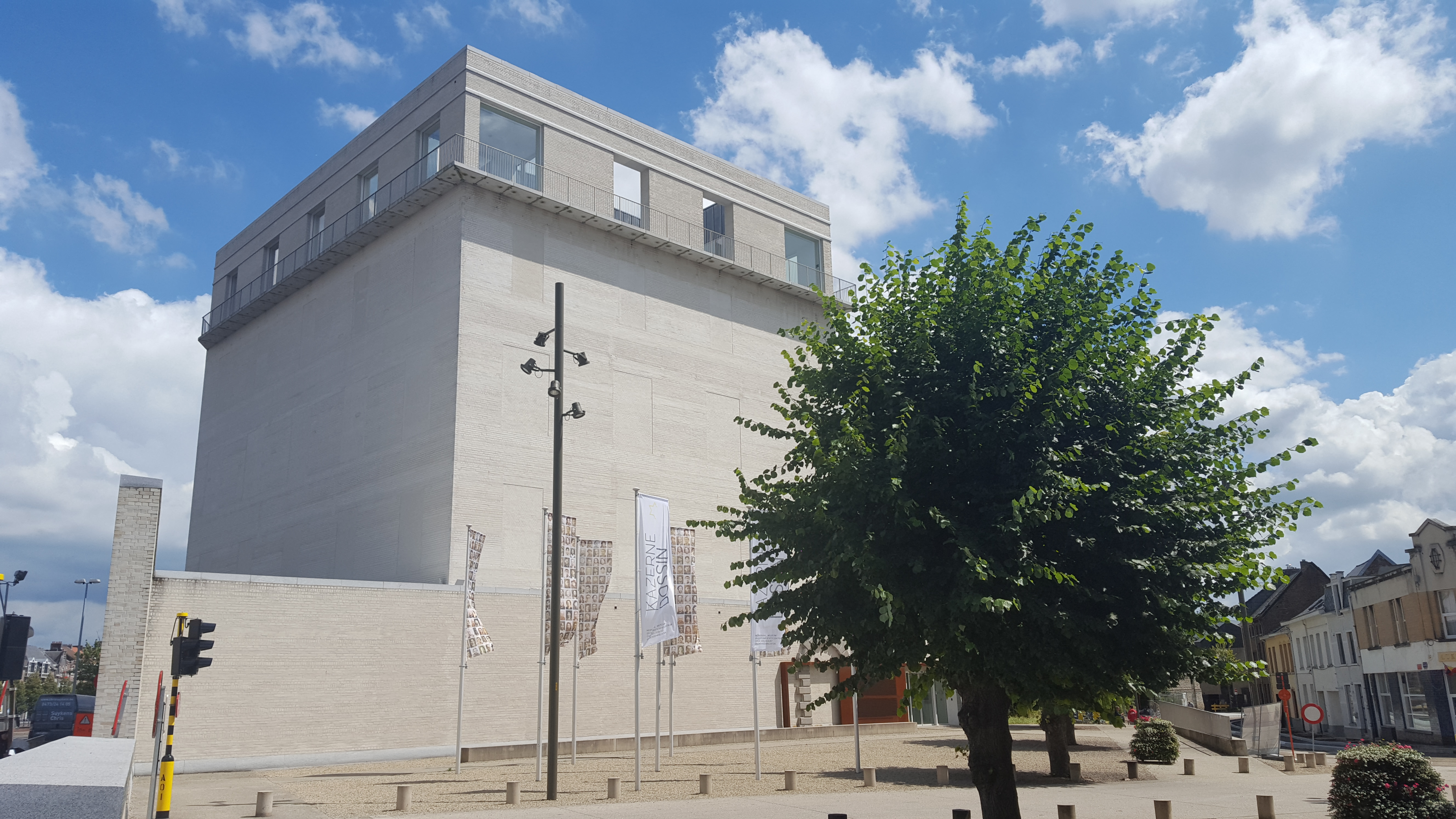 Kazerne Dossin Memoriaal, Mechelen, Belgium